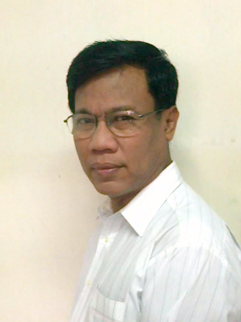 Myoma Myint Kywe (b. 14-Apr-1960) is a Writer, Historian, Journalist and Karate Chief Instructor in Burma (Myanmar).မြန်မာဘာသာ: စာရေးဆရာ မြန်မာ့သမိုင်းပညာရှင် မြို့မ-မြင့်ကြွယ် ၏ အမည်ရင်းမှာ ဦးမြင့်ကြွယ် ဖြစ်သည်။ Soshiki ကရာတေး နည်းပြချူပ် ဖြစ်သည်။